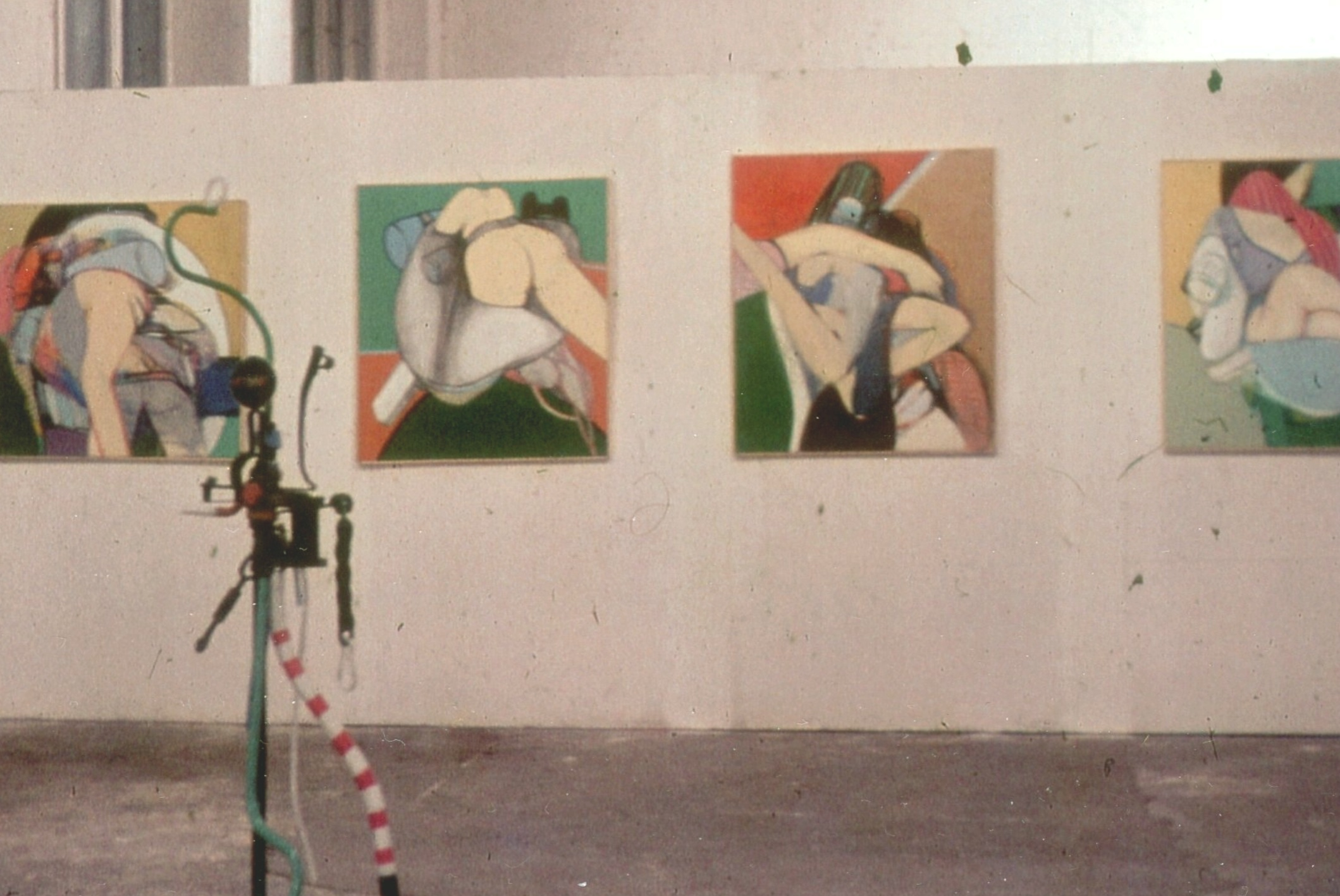 art of Hans-Joachim Spesshardt / Hans-Joachim Speßhardt